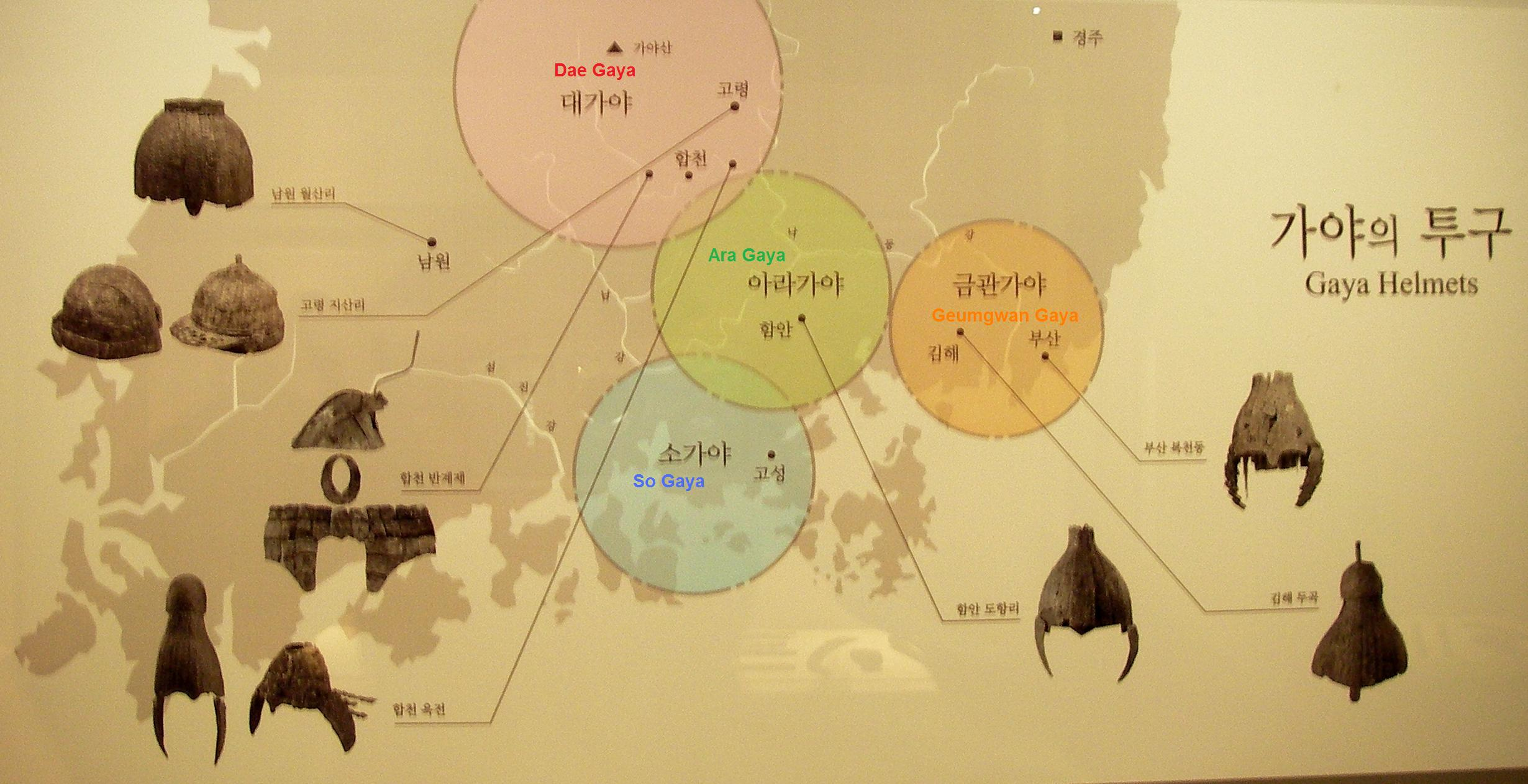 Map of Gaya in South Korea with marked Gaya groups and habitat of ancient Gaya helmets